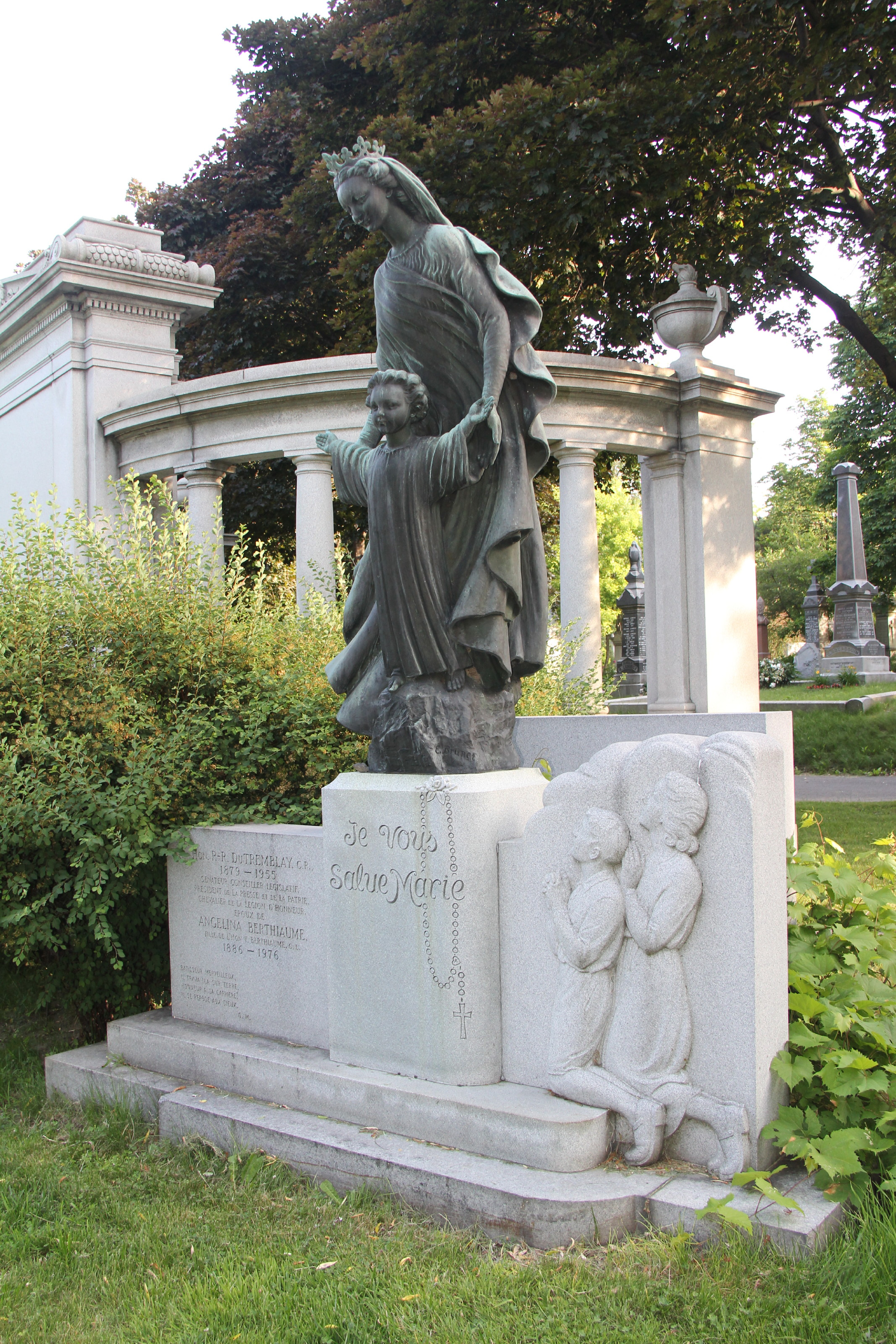 Angelina Berthiaume (former owner of 'La Presse' newspaper) and Pamphile-Réal Du Tremblay’s (President, 'La Presse' newspaper) tombstone, Notre-Dame-des-Neiges Cemetery (B276), Montreal.